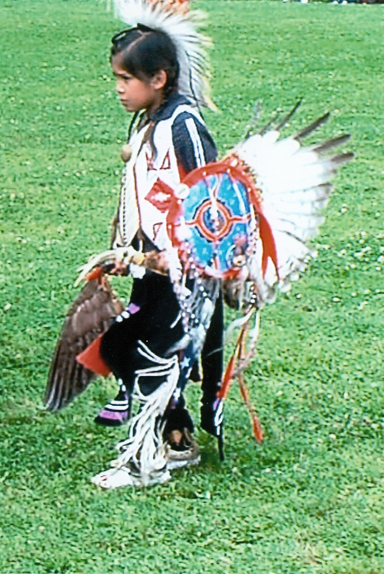 A Native American Boy, Lasakuyuntehse (He Brings Thunder) member of the Oneida Nation. Salamanca Pow-wow, Salamanca, New York or Six Nations Pow Wow Summer of 2005